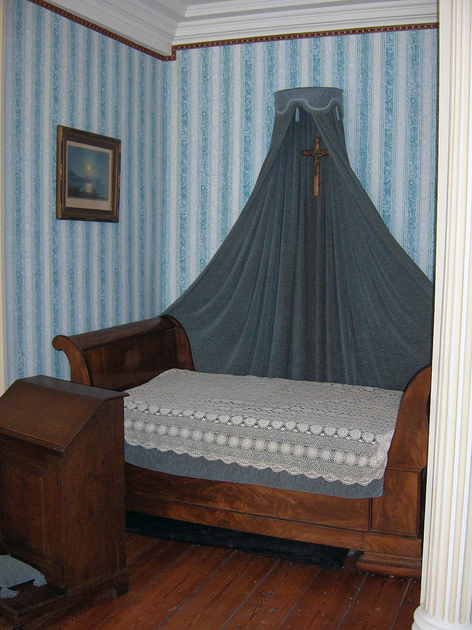 Deathbed of Queen Louise-Marie